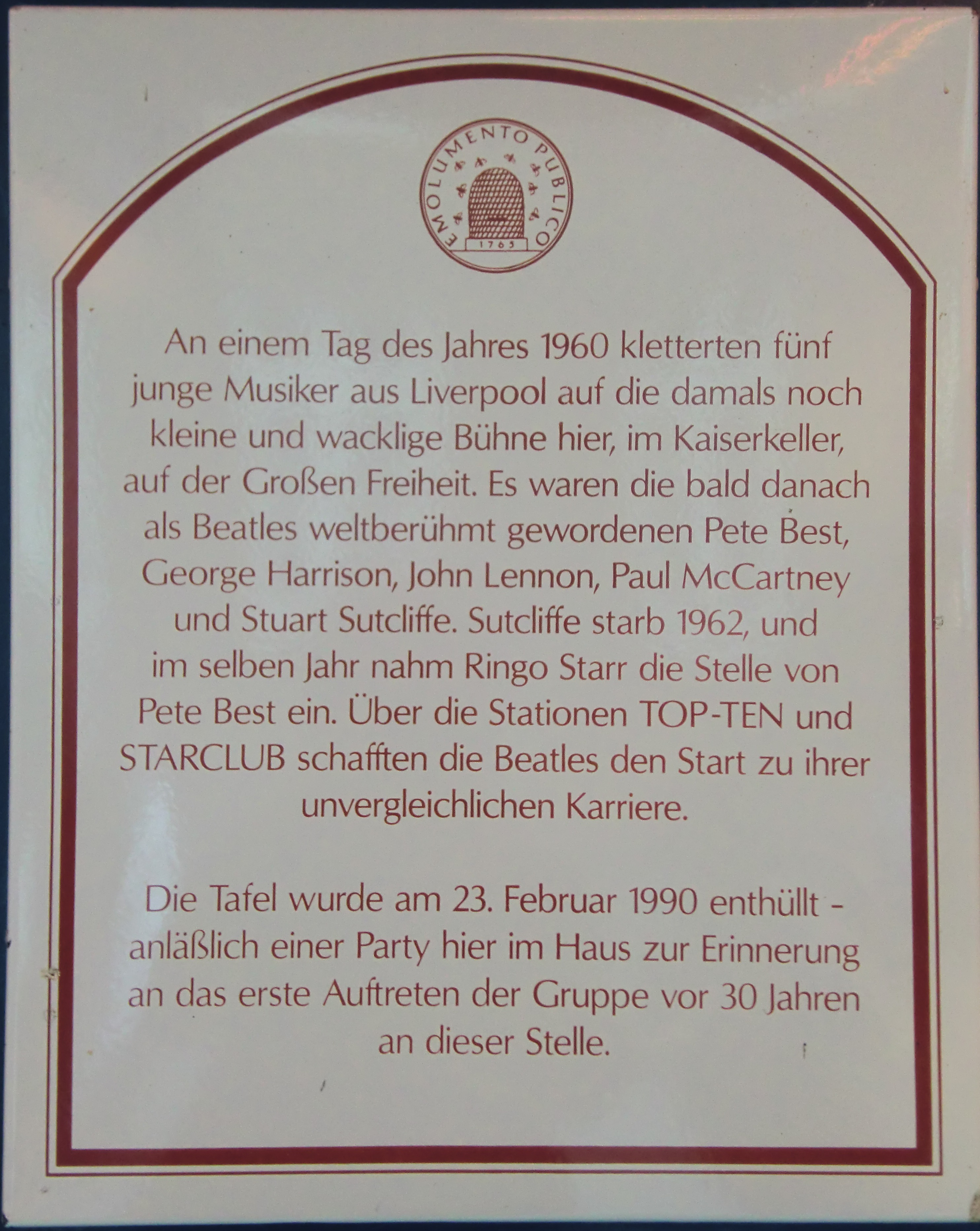 Plaque Kaiserkeller, Hamburg. "On a day of the year 1960, five young musicians from Liverpool climbed to the then small and rickety stage here in the Kaiserkeller, on the Große Freiheit. It was soon thereafter as the world-famous Beatles Pete Best, George Harrison, John Lennon, Paul McCartney and Stuart Sutcliffe. Sutcliffe died in 1962, and that same year Ringo Starr took the place of Pete Best. Stations were the TOP-TEN and STARCLUB and managed the Beatles to launch their incomparable career. The plaque was on 23 February 1990 unveiled during a party in the house to commemorate the first appearance of the group 30 years ago at this point."